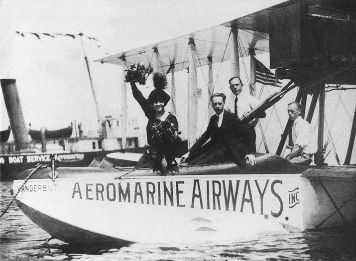 Photograph of Marguerite Sylva, Harry Bruno, Edwin Musick and unknown on board an Aeromarine Model 85, 'Vanderbilt'.